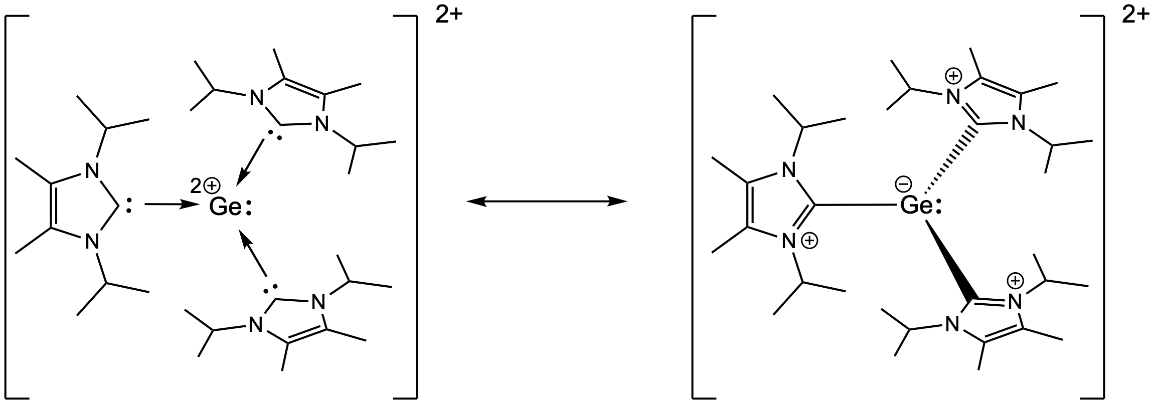 Possible representations of a Ge(II) carbene complex, synthesized in the following work